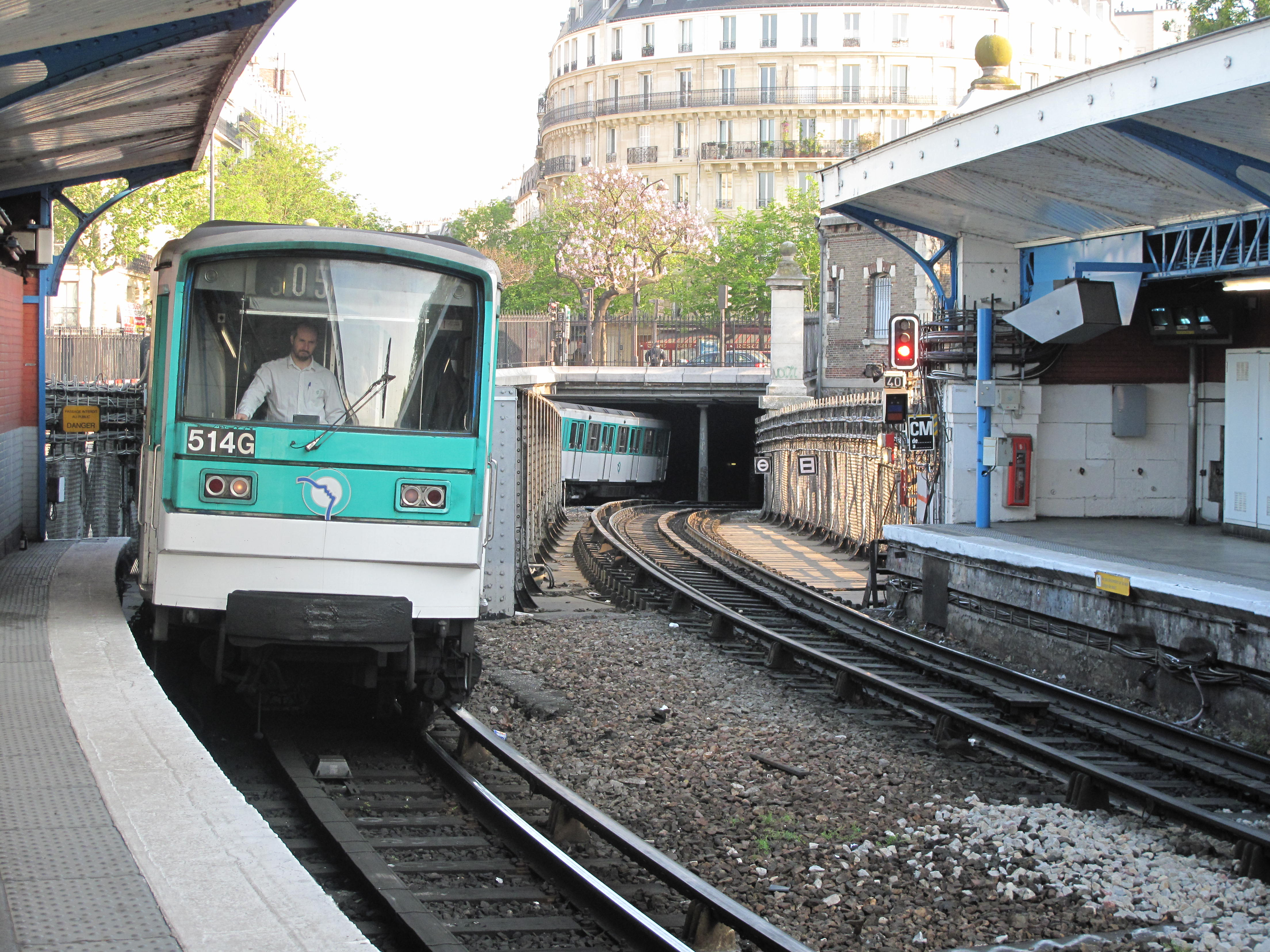 The metro entering in the station of quai de la Rapée. Paris 4th arr.